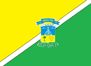 Flags of the city of Bom Jesus do Amparo, Minas Gerais, Brazil.